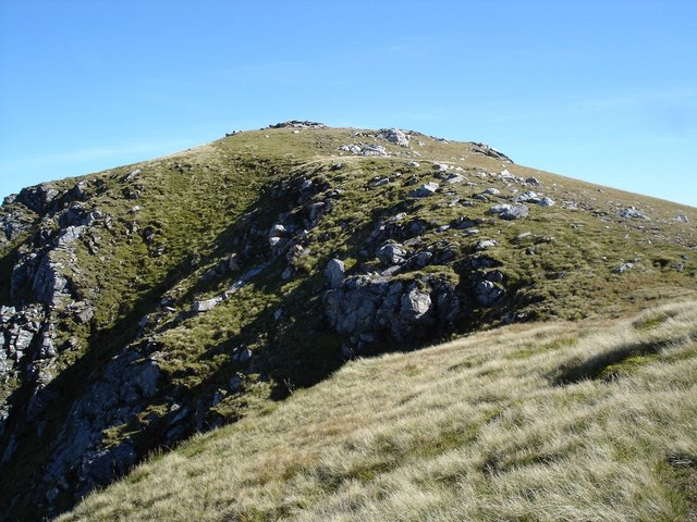 Approaching the summit of Sgurr Breac. Just get to the top of this last remaining hump and the summit comes into view, always a good sensation.